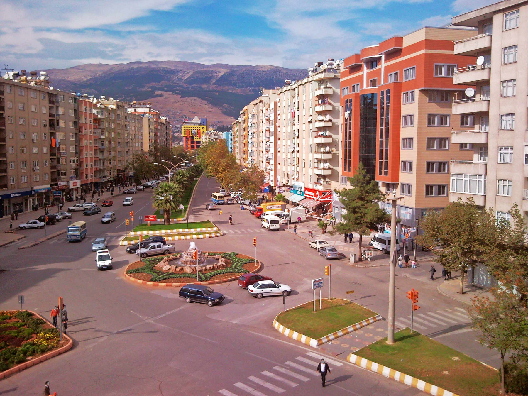 Kahramanmaras, Trabzon Avenue